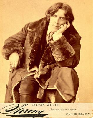 Portrait of Oscar Wilde (1854-1900) in New York, 1882